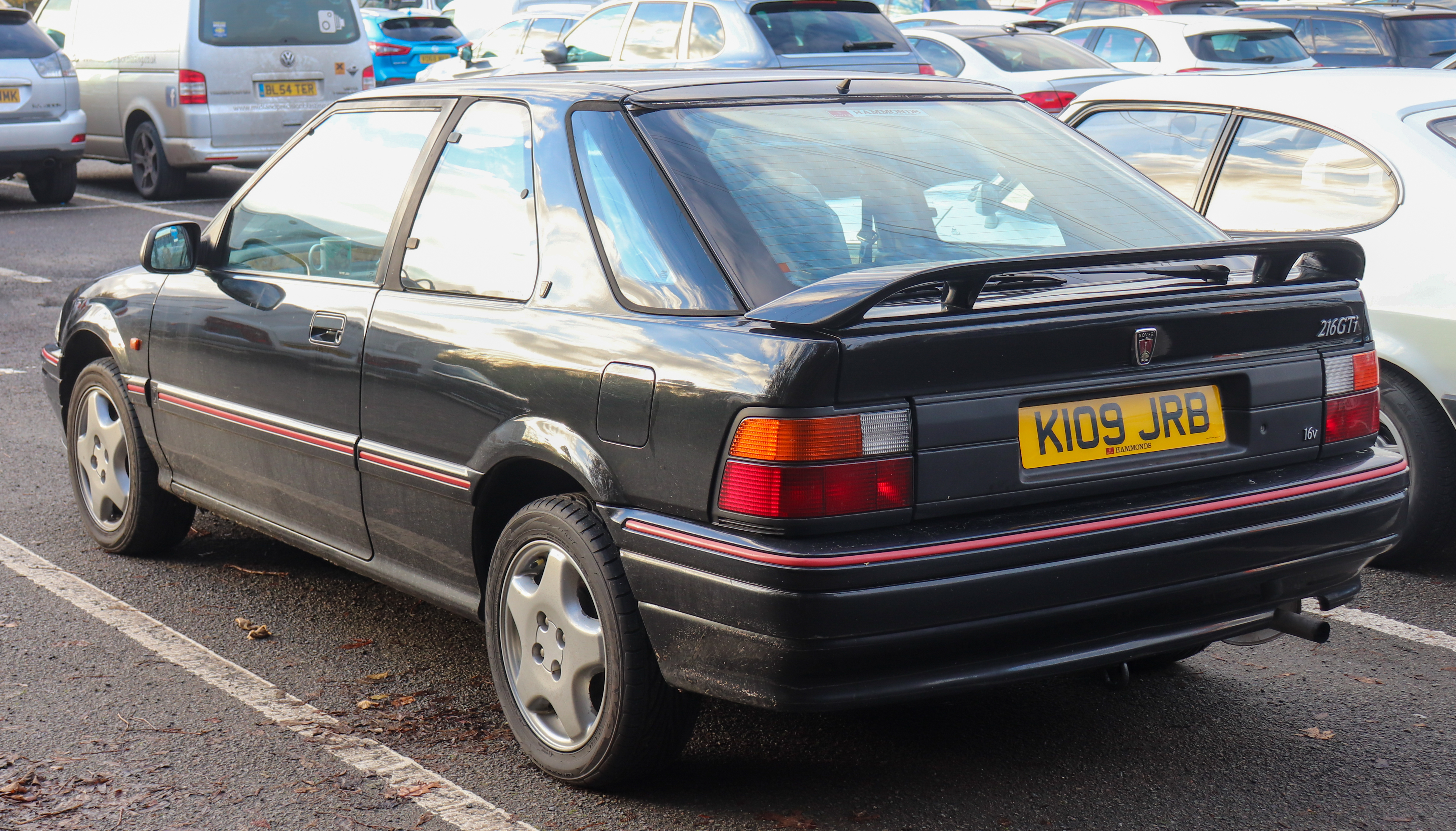 1993 Rover 216 GTi 1.6 Rear Taken in the NEC Car Park, Birmingham